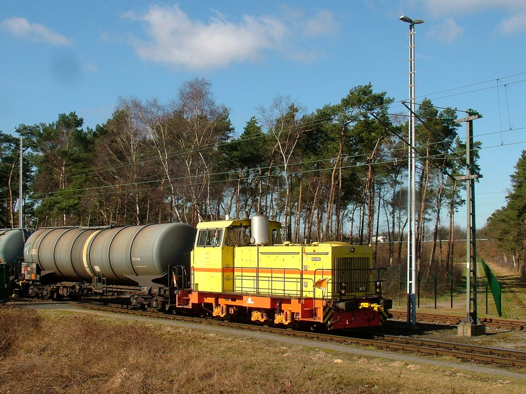 Diesel engine of the type Gmeinder D 60 C in explosion-proof design, in use at the Erdöl-Raffinerie Emsland in Holthausen near Lingen (Ems)